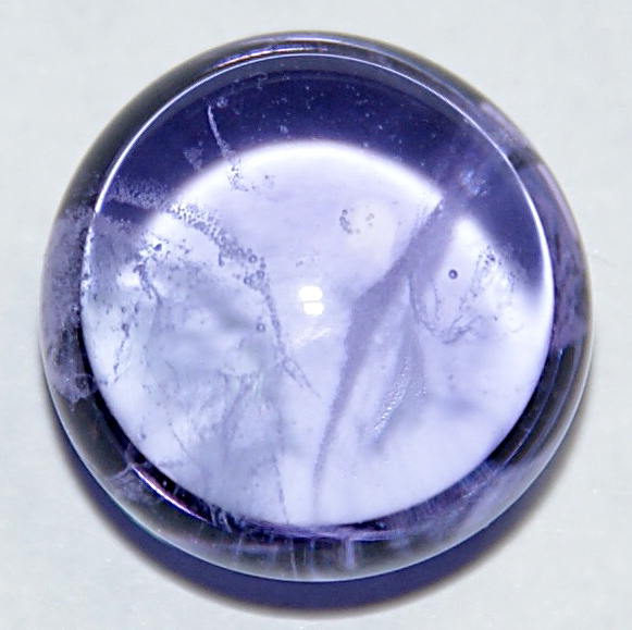 Blue neodymium glass bead, stained with neodymium oxide (Nd2O3). Diameter 1 cm.